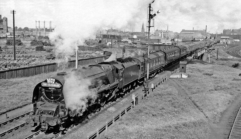 The Up 'Caledonian' leaving Carlisle. View NW from London Road Bridge, towards Carlisle Citadel Station and Scotland; ex-London & North Western West Coast Main Line, London - Crewe - Carlisle - Glasgow. Citadel station is just visible in the right distance and the train is crossing the 'Canal' (Goods avoiding) line. The 'Caledonian', the post-war equivalent of the 'Coronation Scot' was a high-speed express of the 50s and early 60s running from Glasgow Central (dep. 08.30) to Euston (arr. 15.10), returning from Euston at 16.15 to reach Glasgow at 22.55 and calling only at Carlisle each way. Here it is headed by Stanier 'Coronation' 4-6-2 No. 46250 'City of Lichfield'.